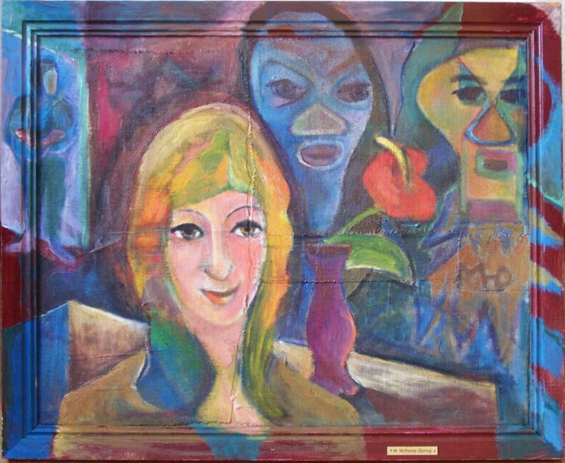 Psychic mystery, oil painting with painted frame, 67×55 cm, 1970 (WV·Nr.5010)